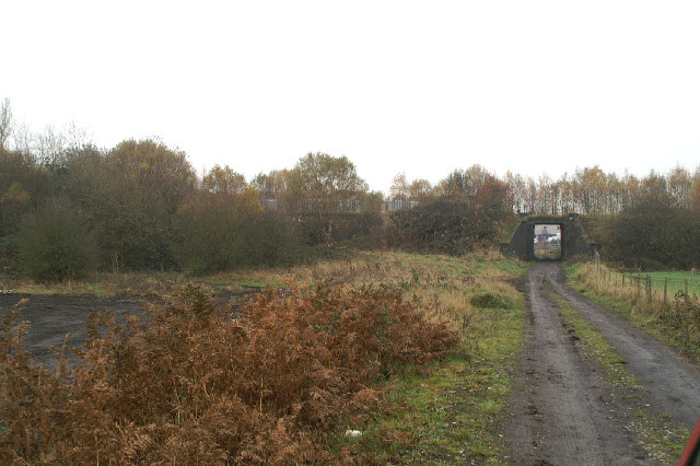 More abandoned railways. The continuation of the line under the milestone bridge is dimly visible to the left of the bridge carrying the track.